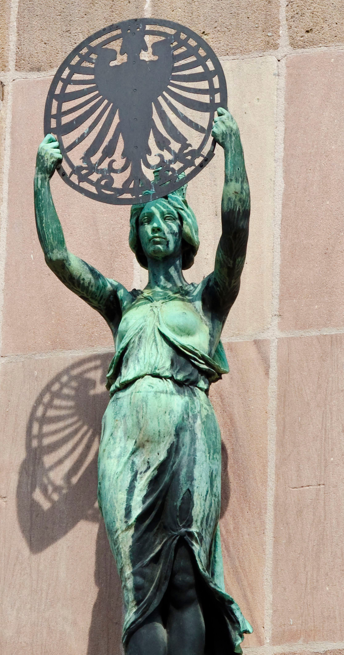 Bronze statue of the nymph Noris (1903) by Philipp Kittler